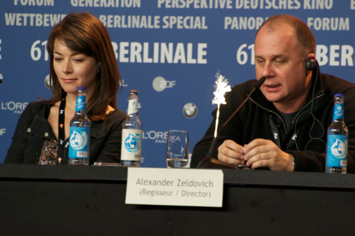 Justine Waddell at the Mishen press conference Berlin Film Festival 2011